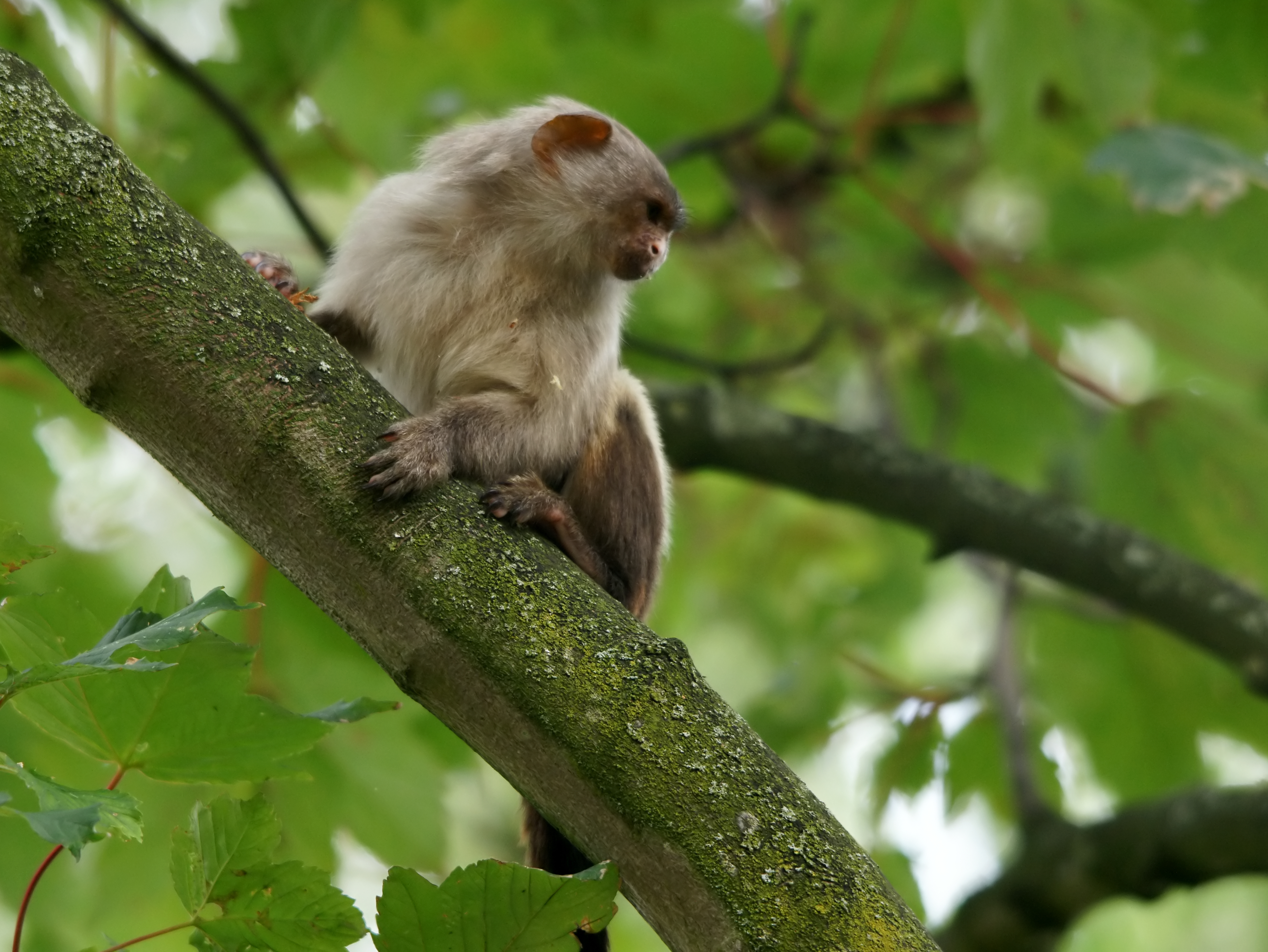 Black-tailed Marmoset at Chester Zoo near Chester, UK.